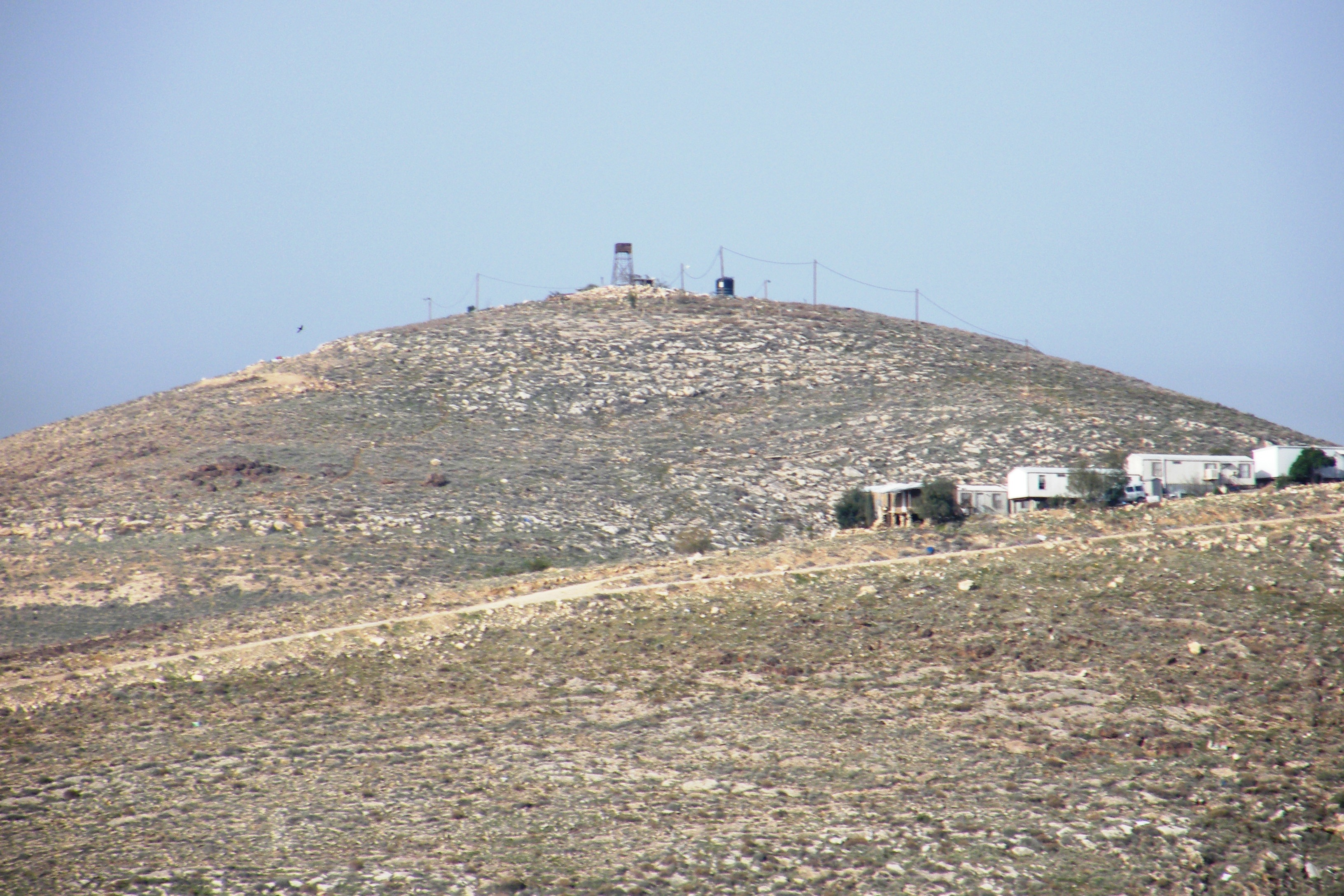 "468 Hill" in Nofei Prat, Israel from Kfar Adumim